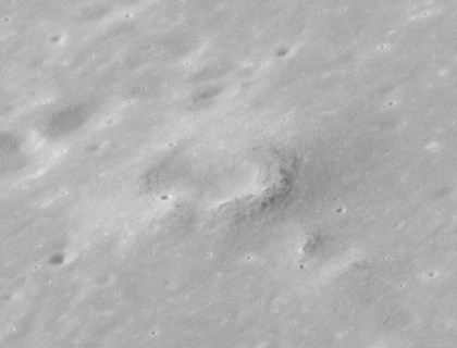 Oblique view of Osiris crater, facing south, on the moon. This feature is likely to be a volcanic vent, rather than an impact crater. Taken by Apollo 15 panoramic camera.